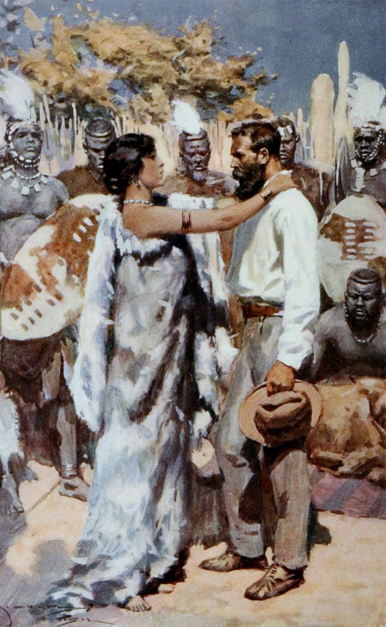 Child of Storm by H. R. Haggard, 3rd edition frontispiece illustration by A. C. Michael